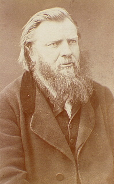 Benjamin Gastineau (1823-1903)